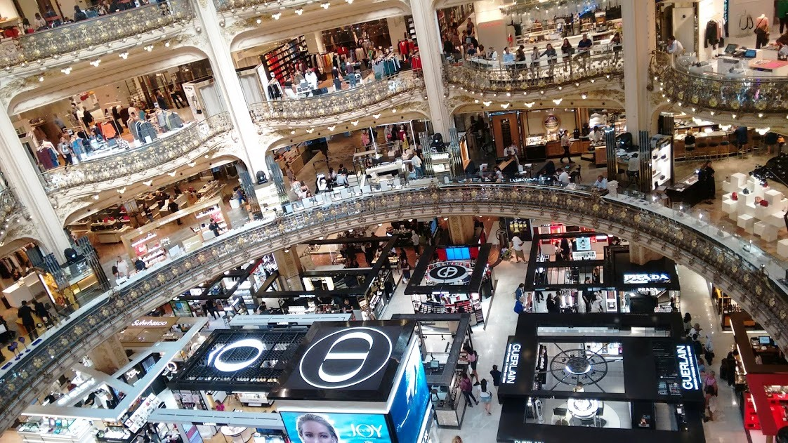 This is a picture in the interior atrium of Galeries Lafayette in Paris. overlooking from the 4th level.